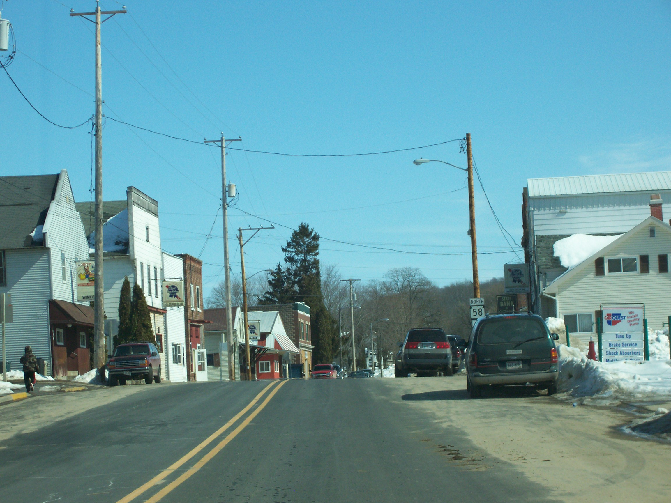 Looking east at downtown Cazenovia, Wisconsin, USA while travelling north on Wisconsin Highway 58. Taken March 11, 2007 by myself.